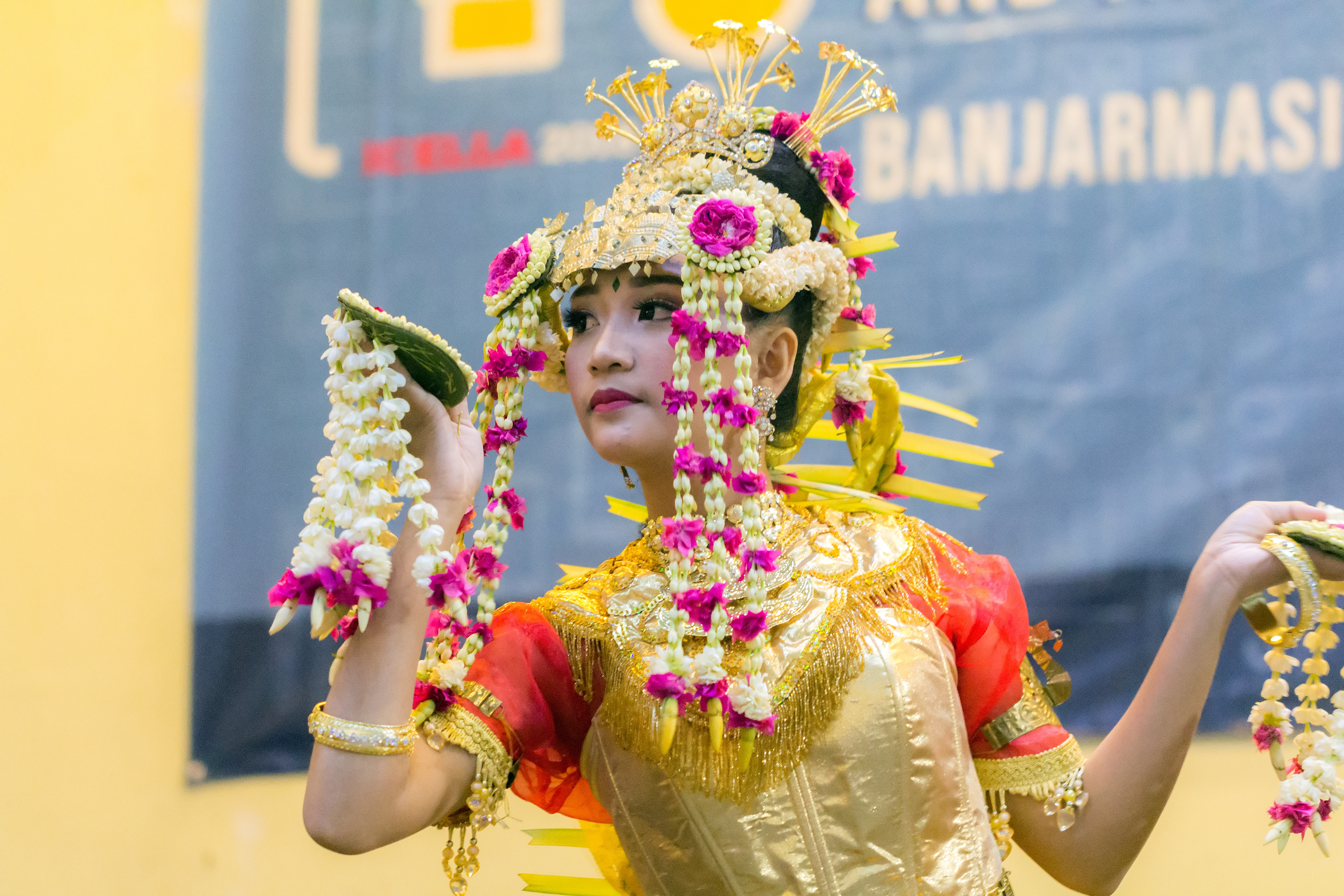 A student of the Lambung Mangkurat University performing the Baksa Kembang welcome dance at Aria Barito Hotel, Banjarmasin, on 2018-07-27 as part of the International Conference on the Education of Language, Literature, and Art in the Digital Era